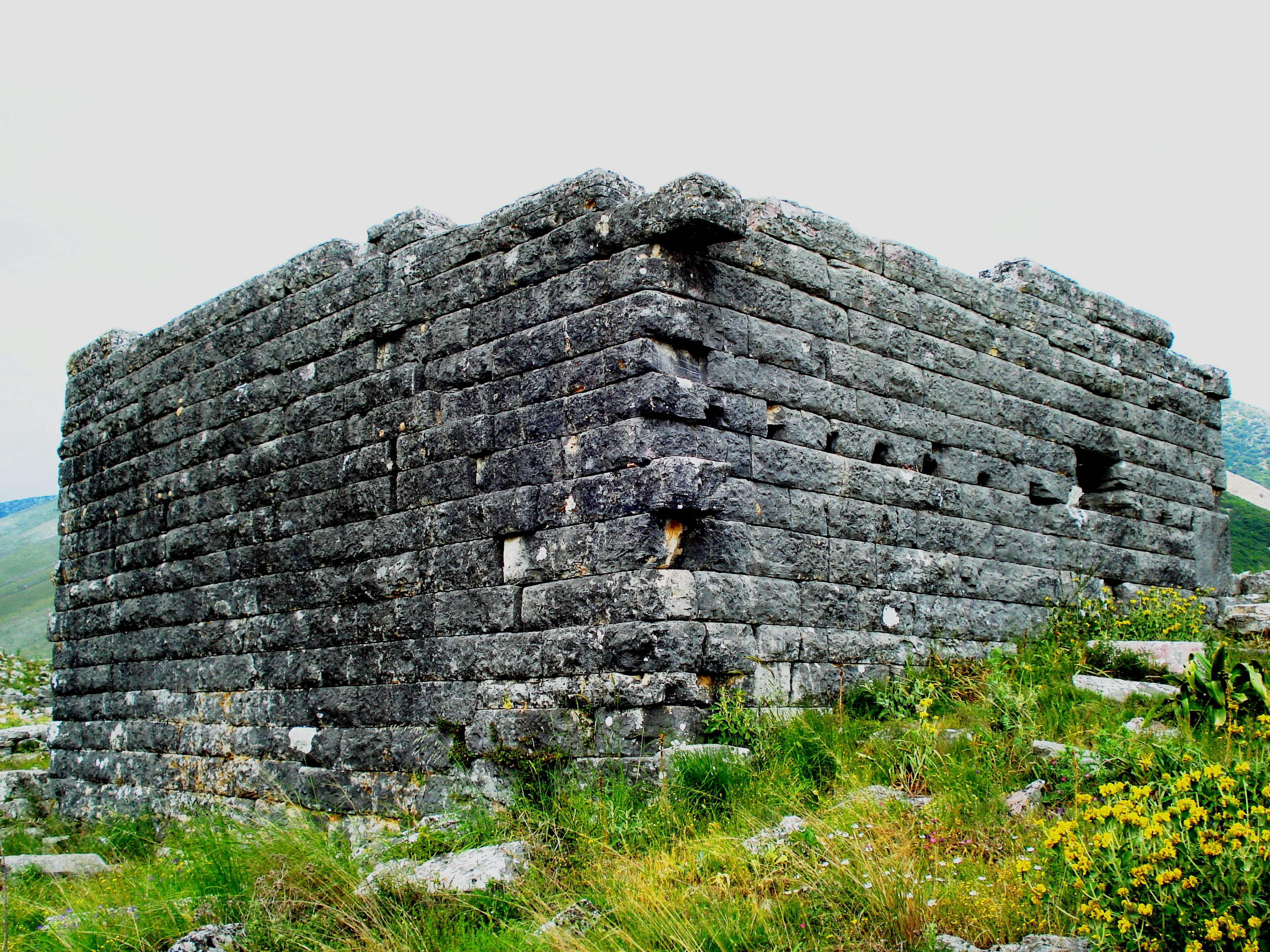 Orraon, Greek city of ancient Epirus